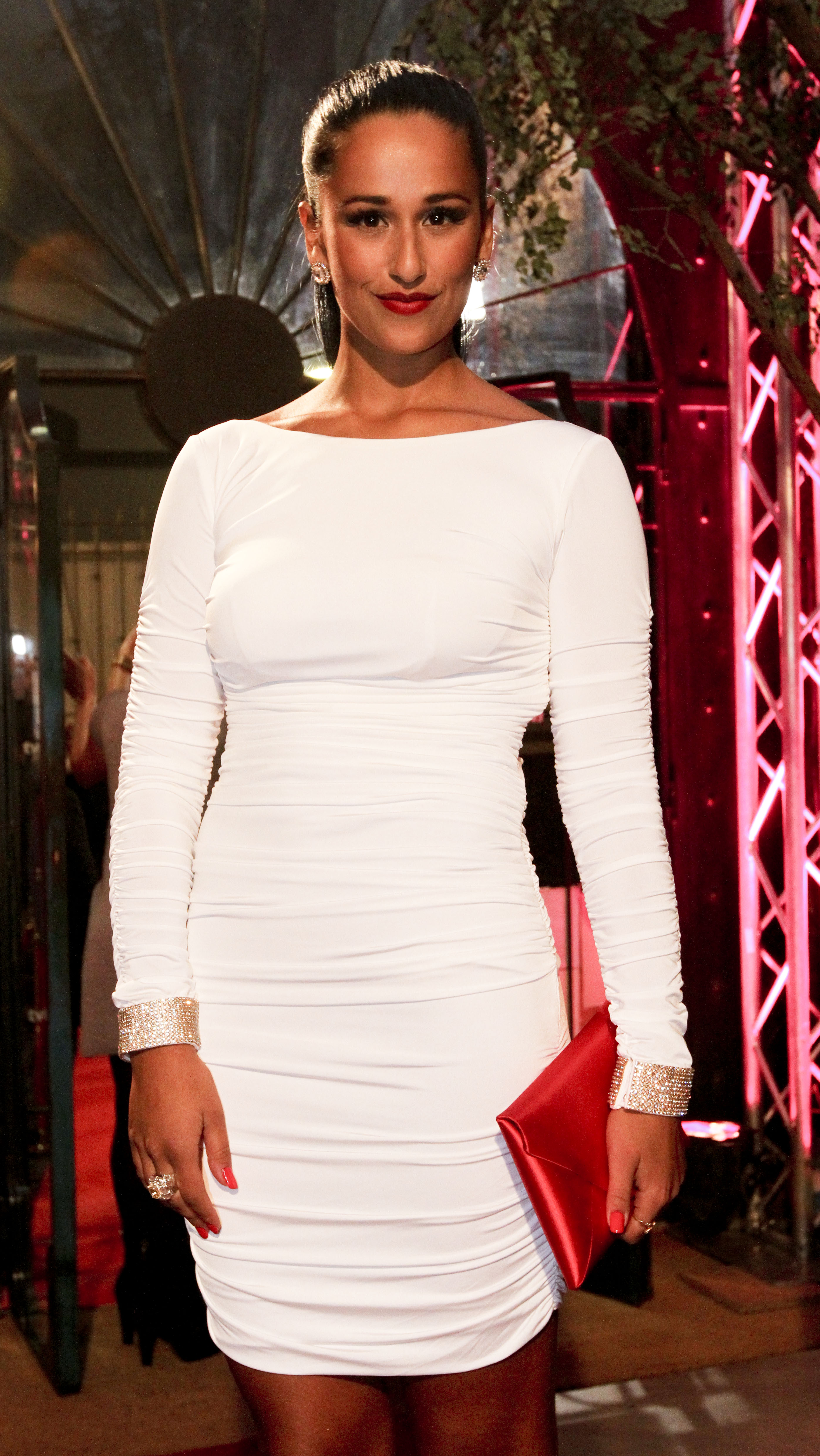 Rita Pereira, Portuguese actress, model and television presenter (October 2012)